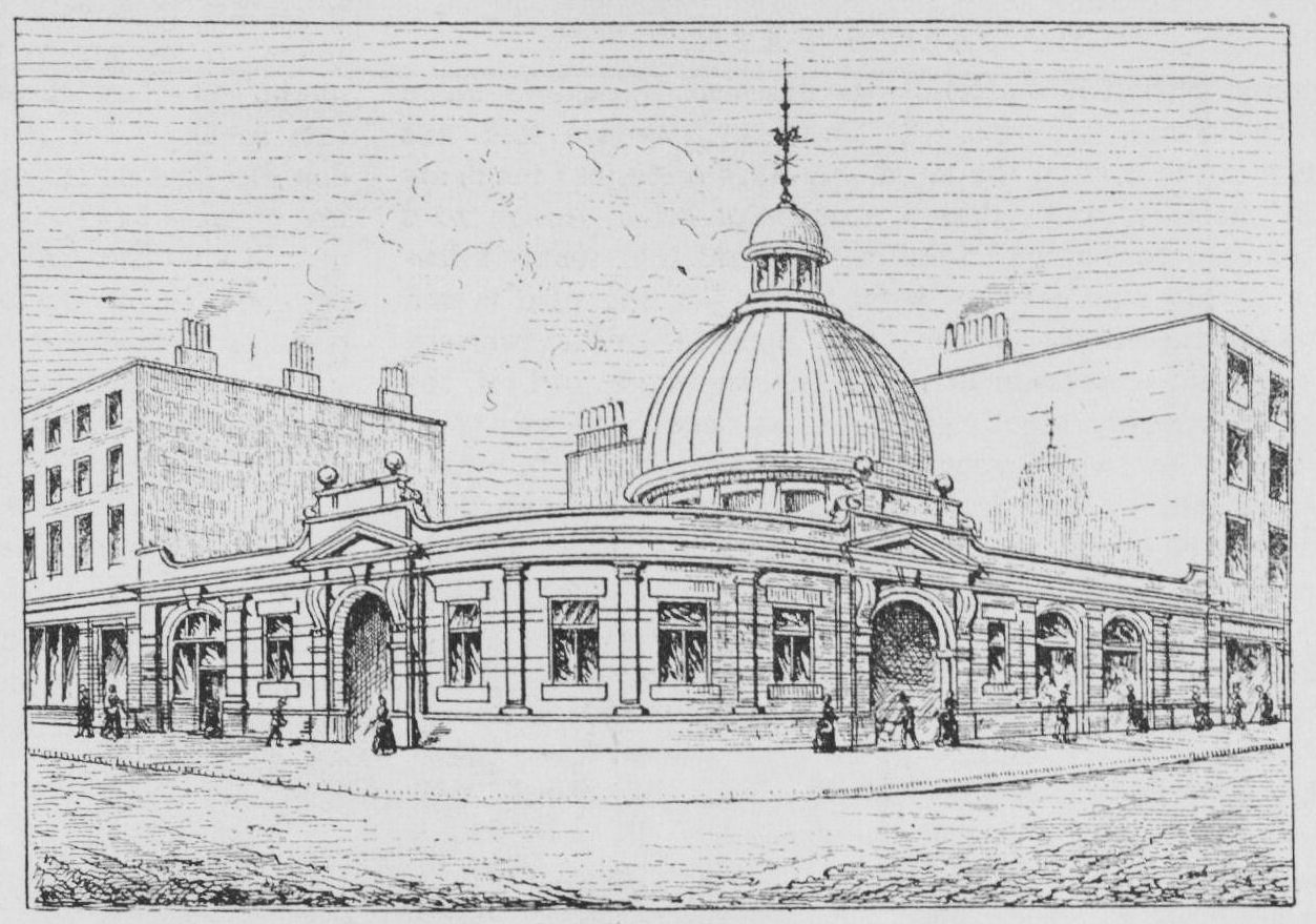 Borough station on the City and South London Railway, 1890, built by T. P. Figgis